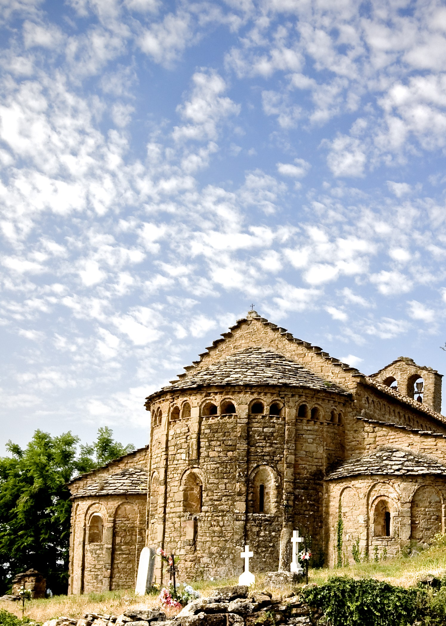 St. Mary's of Palau. Romanesque church in Palau de Rialb (La Baronia de Rialb, Lleida, Catalonia)